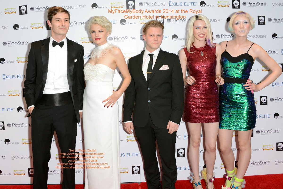 MyFaceMyBody Awards 2014 at the Royal Garden Hotel in Kensington, 1 November 2014